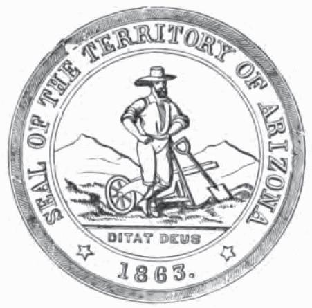 Seal of Arizona Territory (1863-1912), circa 1864.